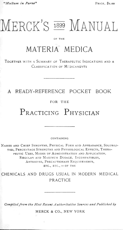 Cover page of 1899 edition of Merck's Manual of the Materia Medica, original publication date 1899, by Merck & Co. Copyright not renewed.